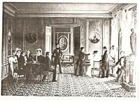 Interior with the Danish shipowner Jacob Holm.